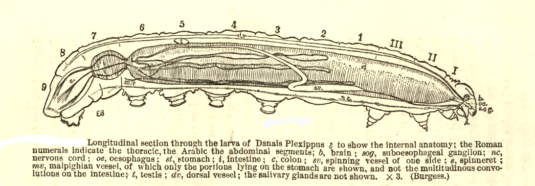 Caterpillar anatomy (Danaus plexippus).